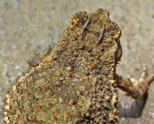 Bufo biporcatus from Situgede, Bogor, West Java, Indonesia